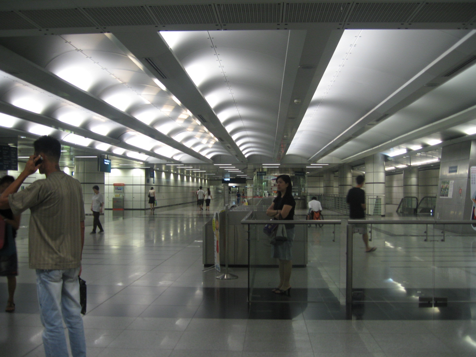 Boon Keng MRT Station. Taken by Terence Ong (own) in March 2006.